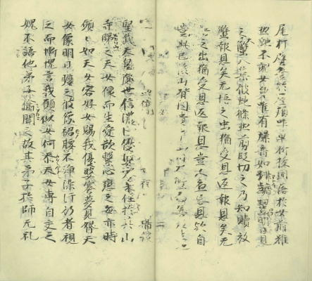 Nihon Ryōiki (日本霊異記) vol. 2, 3. Japan's oldest collection of Buddhist setsuwa. Until its discovery in 1973 there was no complete text of the Nihon Ryōiki. A copy of the first volume housed at Kōfuku-ji, Nara is also a National Treasure. Part of two bound books (vol. 2, 3), ink on paper. Located at Raigō-in (来迎院), Kyoto.